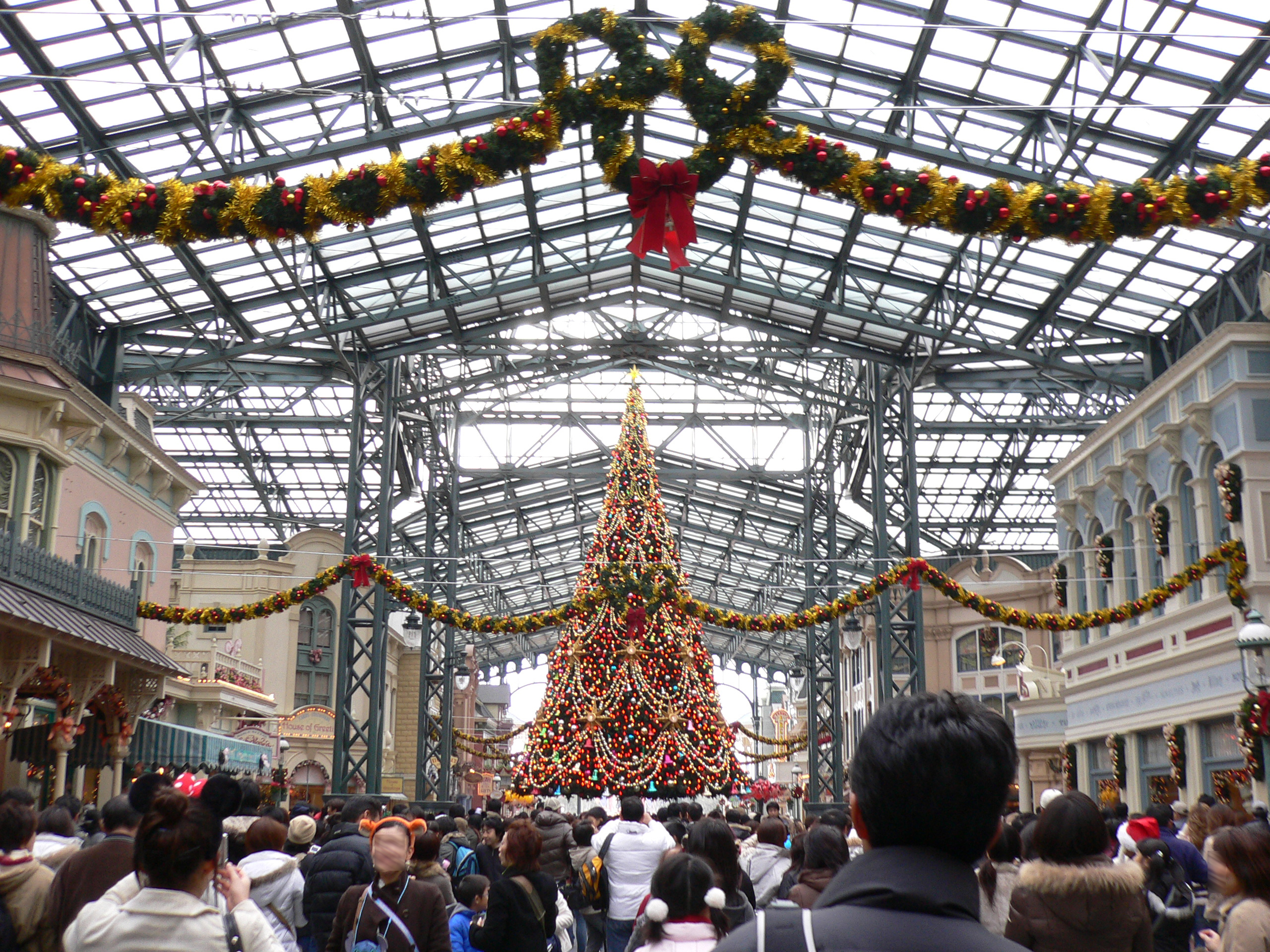 World Bazaar